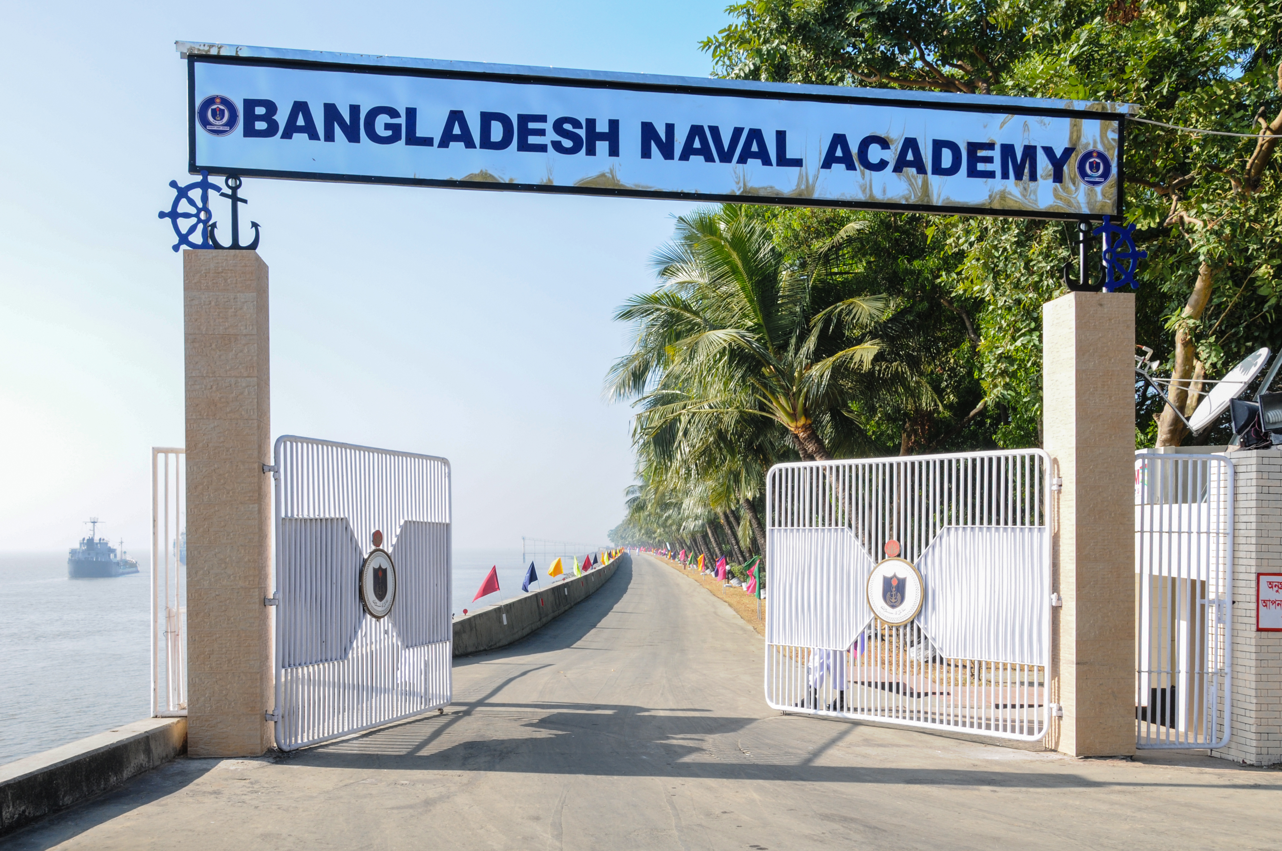 Portal of Bangladesh Naval Academy, Chittagong